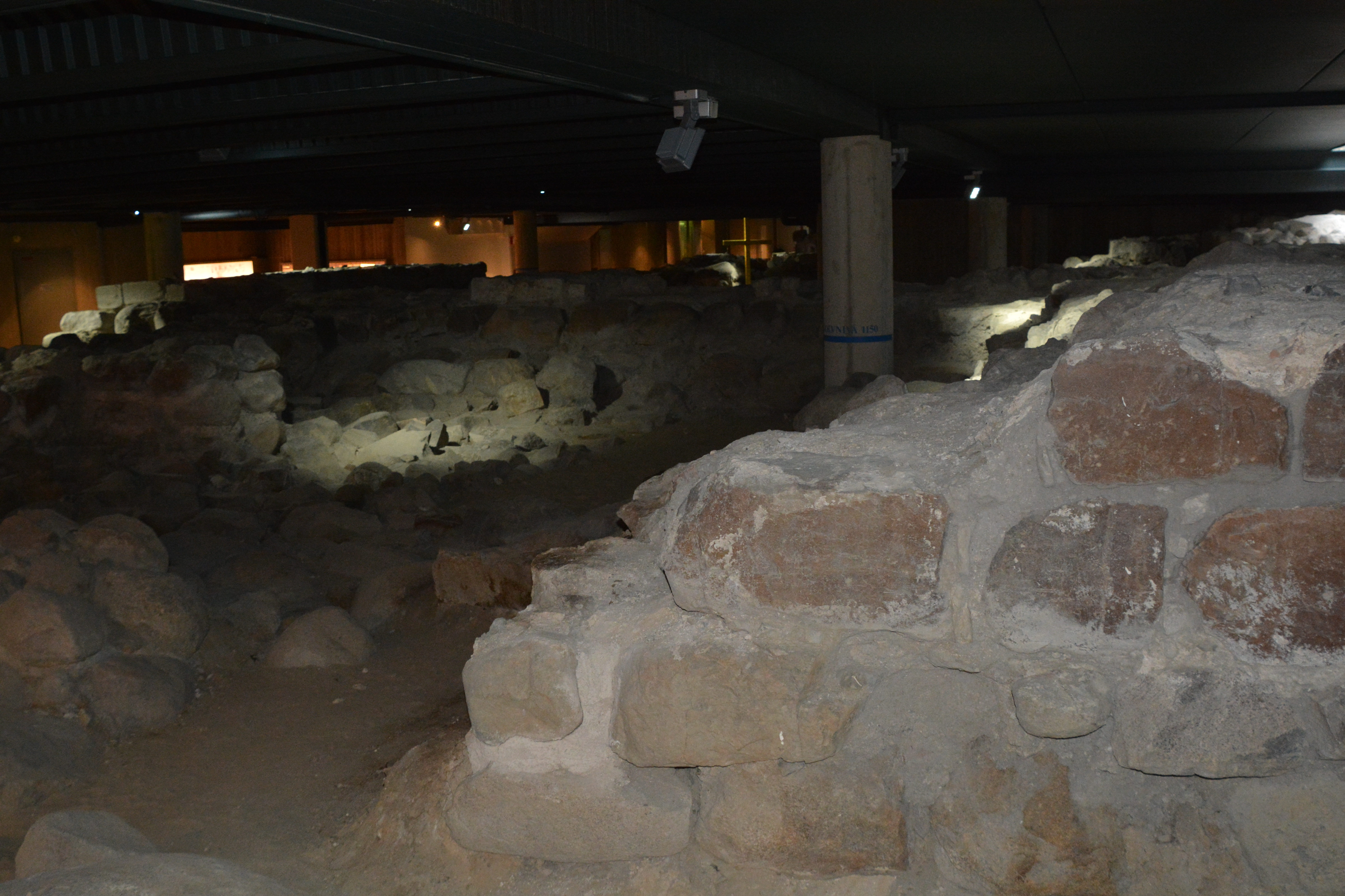 Drottens kyrkoruin. Bild tagen västerifrån